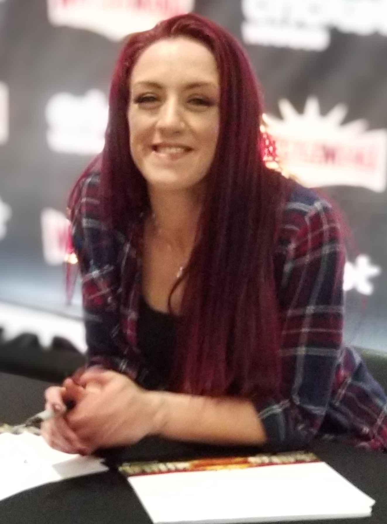 Professional wrestler, Kay Lee Ray on April 6, 2019 at a WWE event.